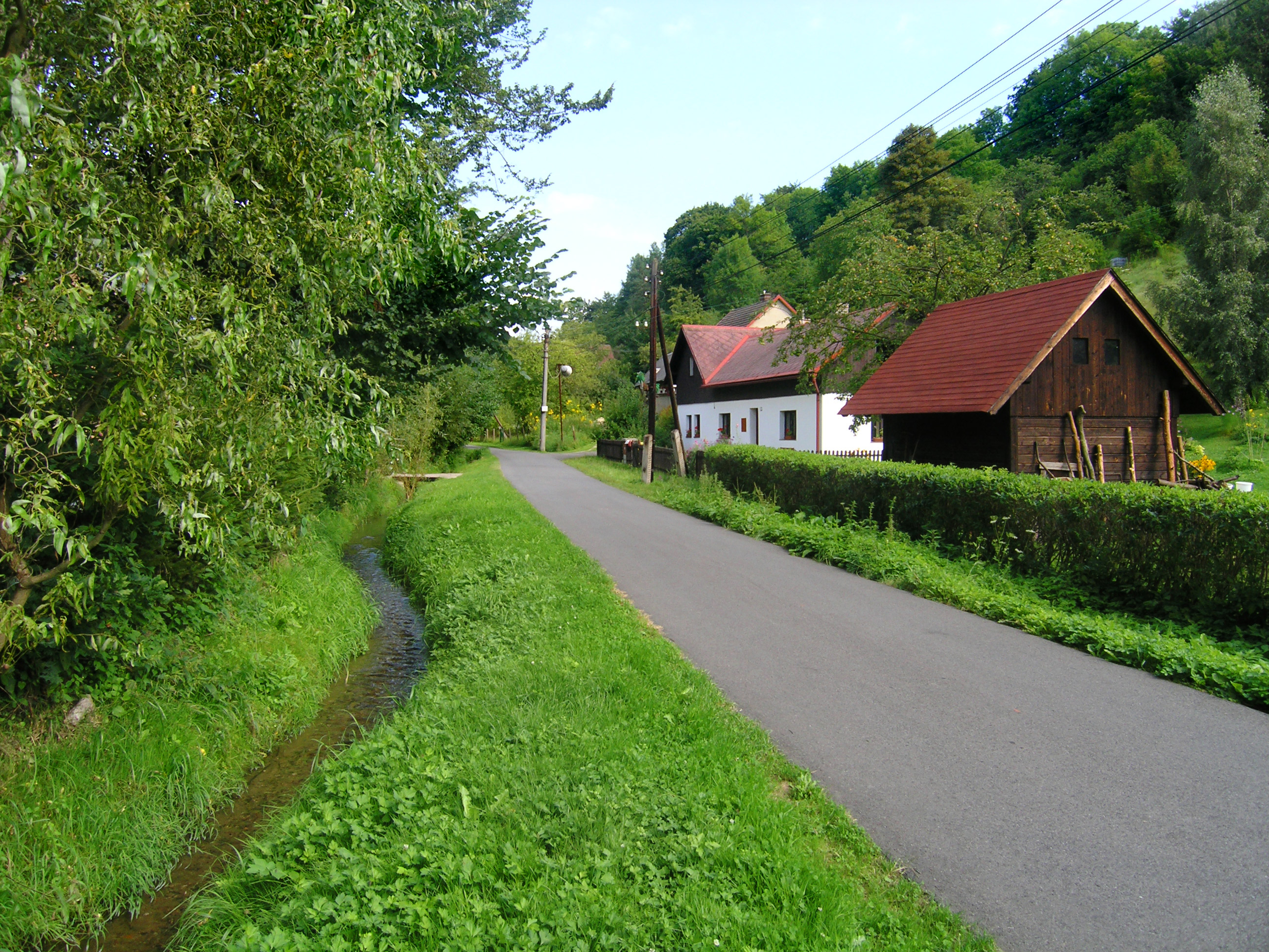 Vazovecký creek in Vazovec village, part of Turnov, Czech Republic